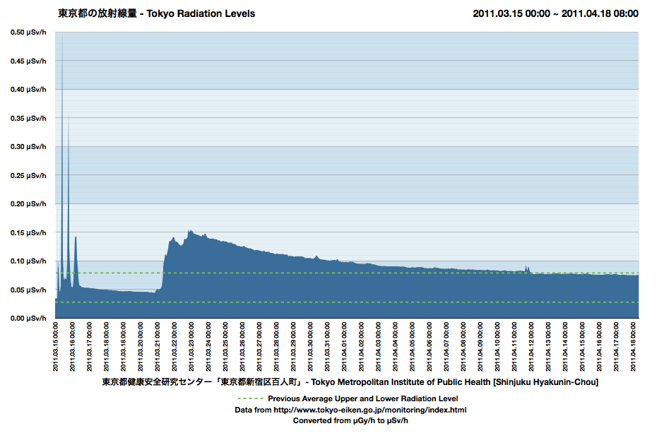 Shinjuku, Tokyo radiation levels from March 15 to April 18, 2011